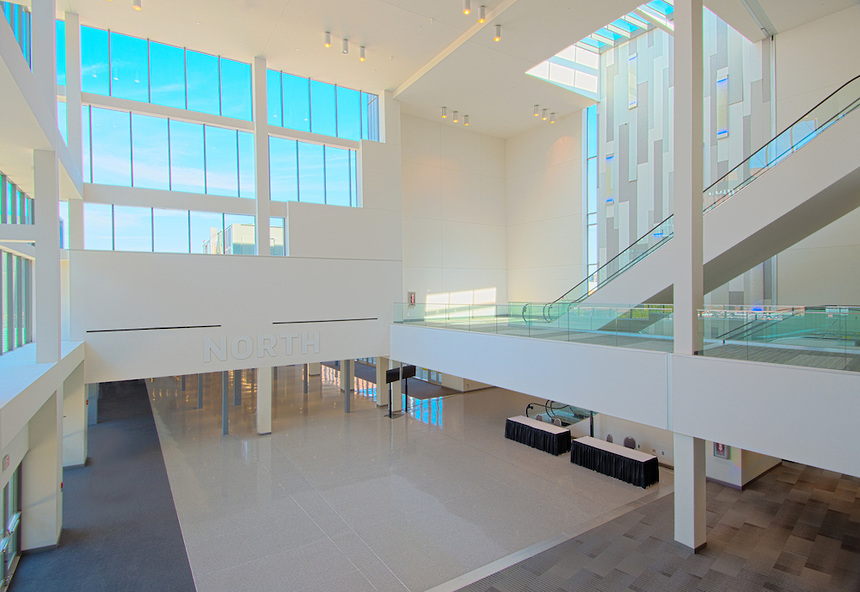 North Atrium to Battelle Grand